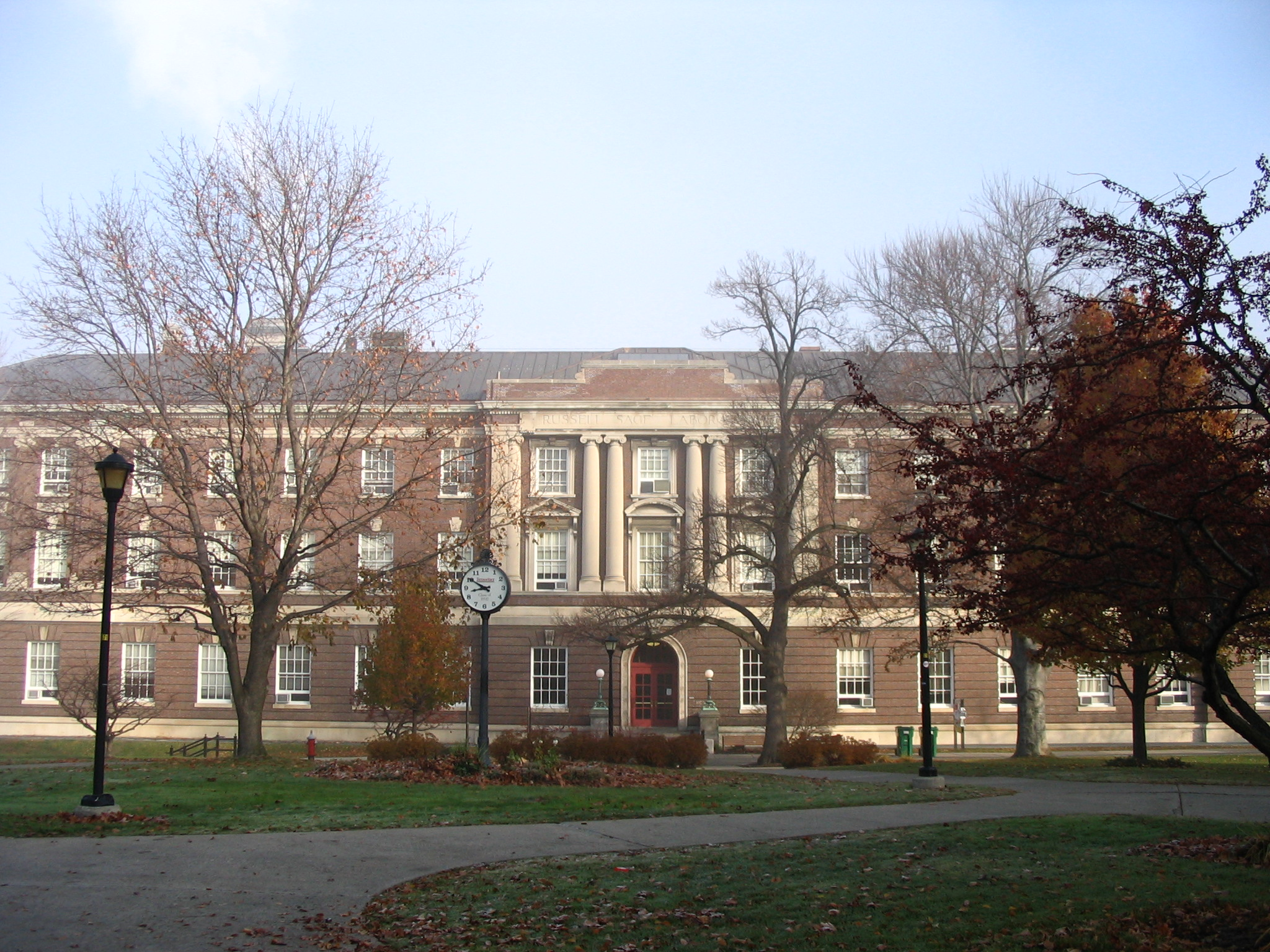 Michael Sasseville, south side of Russell Sage Laboratory